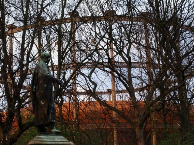 Grade II listed statue of the Gas Light and Coke Company boss, Sir Corbett Woodall.